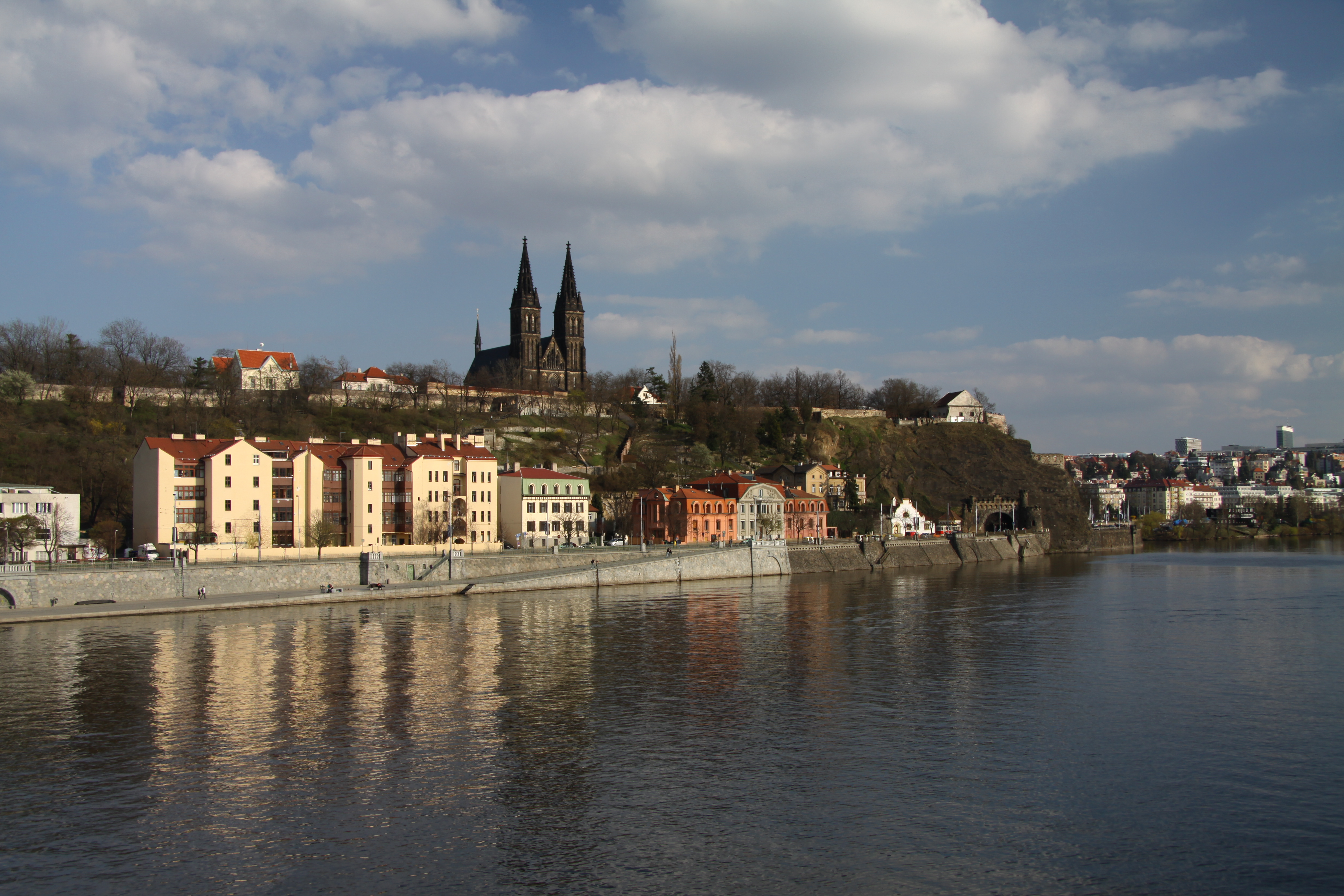 Vyšehrad with Moldau River, Prague, Czech Republic